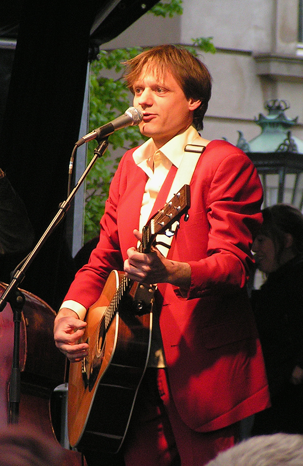 Danish musician Tobias Trier entertaining during a demonstration outside Christiansborg, Copenhagen, May 17th, 2006